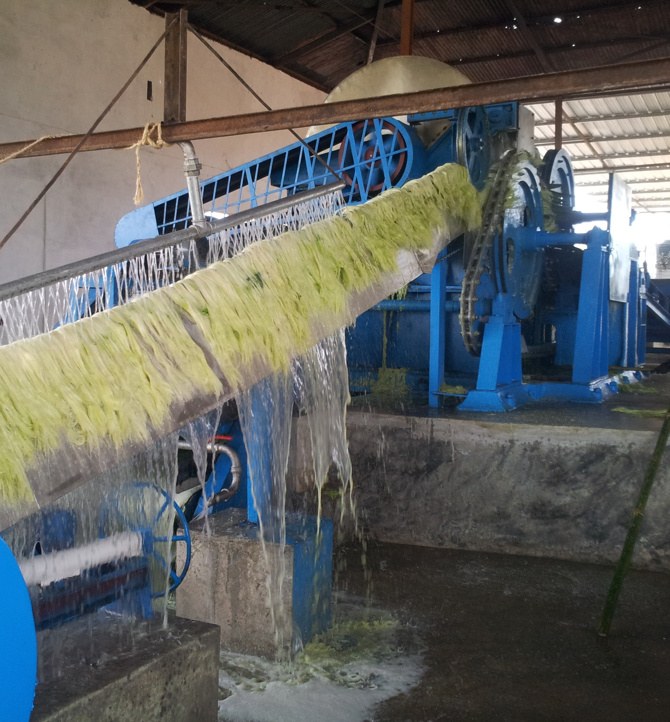 Operation of Decorticator